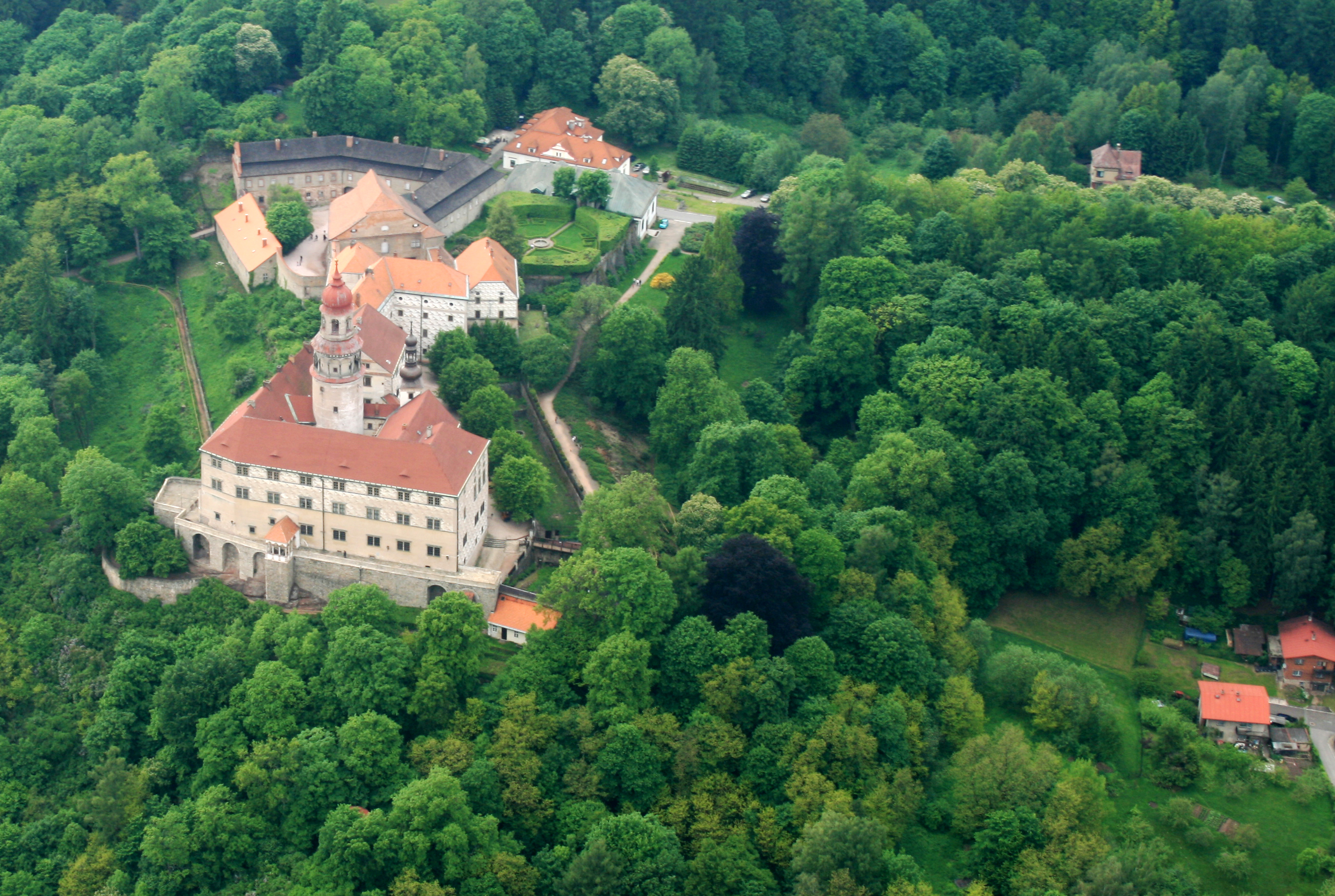 Castle in town Náchod from air, eastern Bohemia, Czech Republic